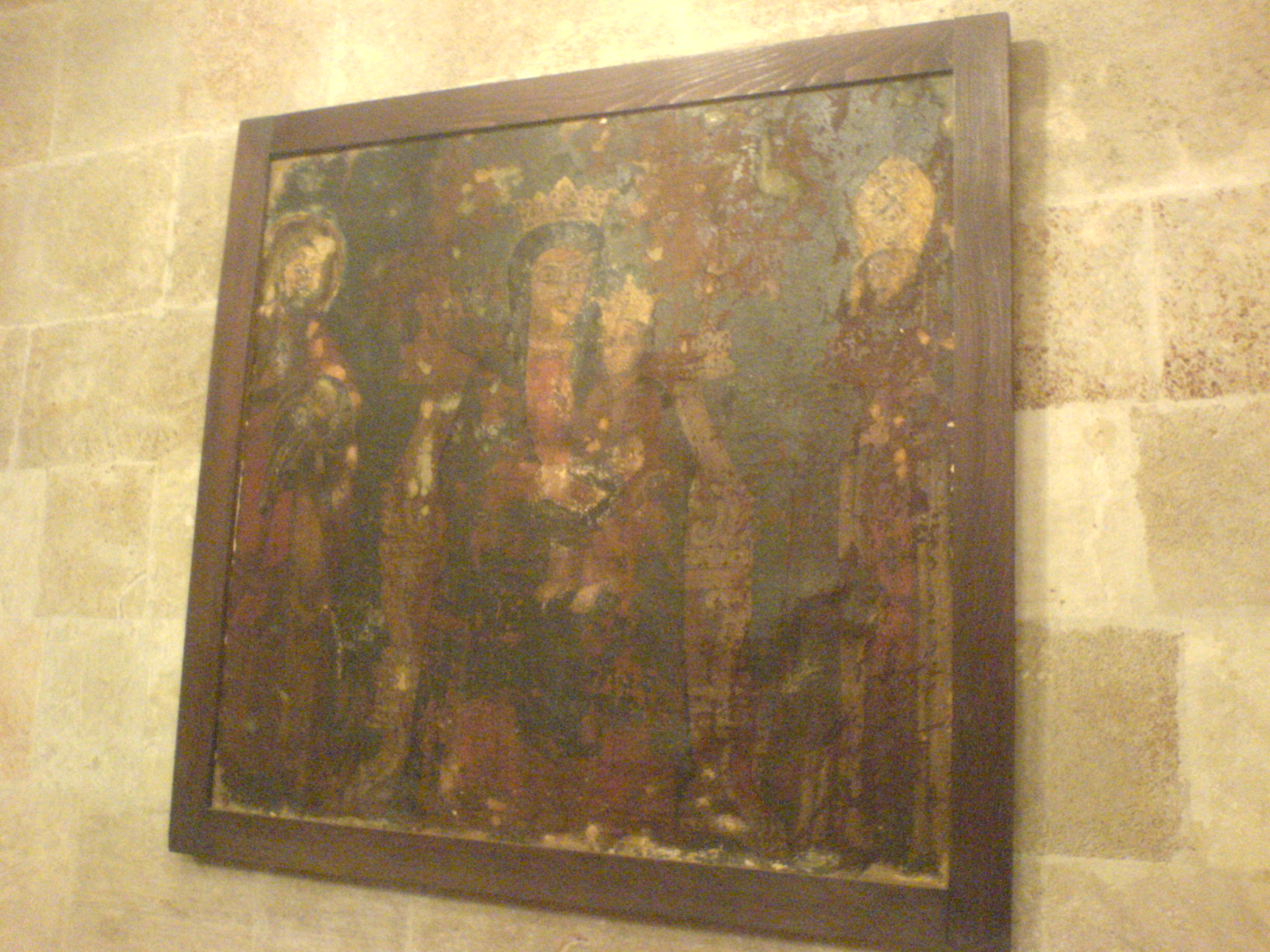 Icon of the Virgin in Church Alkidun and Armenians in Latakia